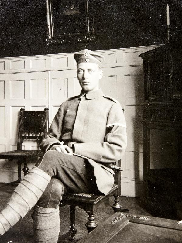 Photograph of the Finnish writer Bertel Kihlman (1898–1977) during the Finnish civil war.